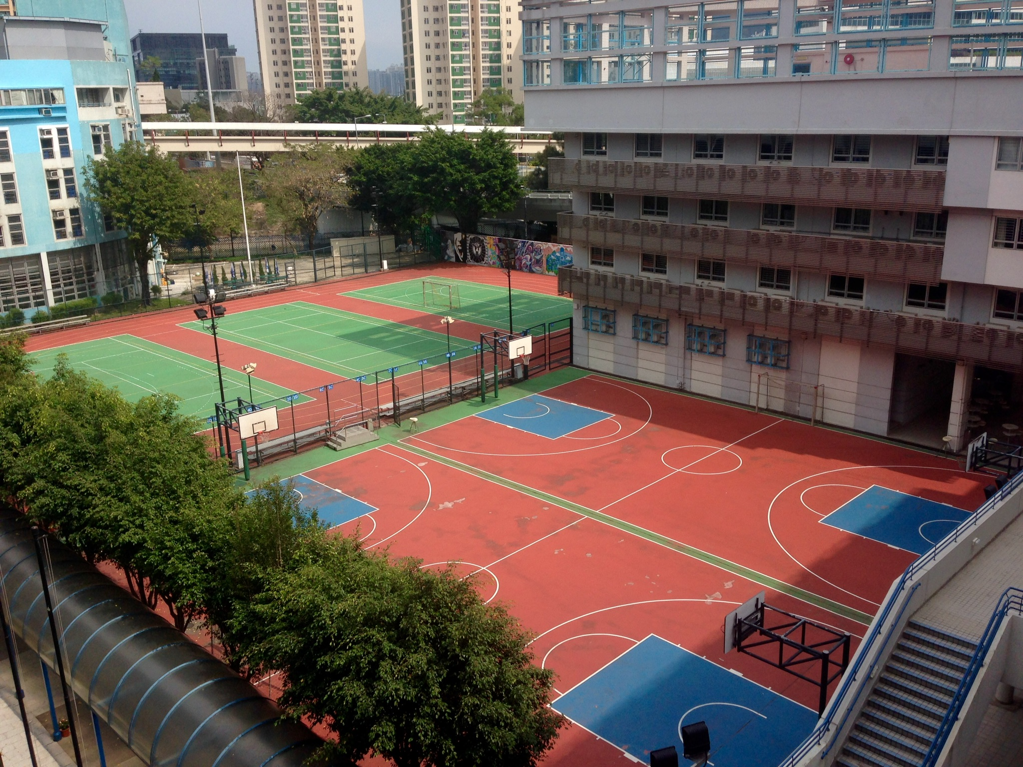 playground of jctic